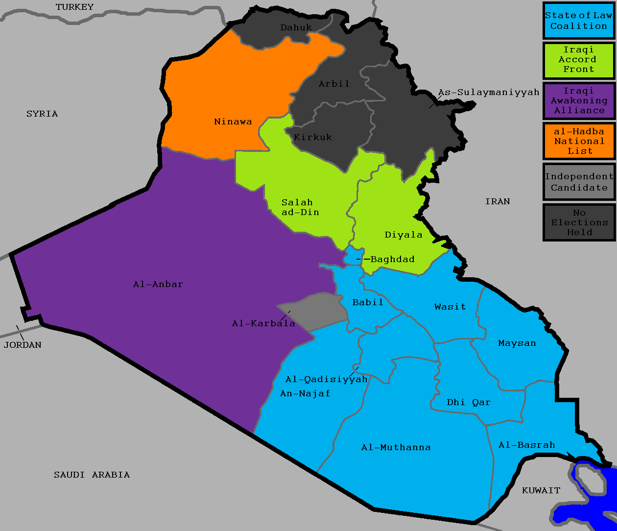 Map of Iraqi governorate elections